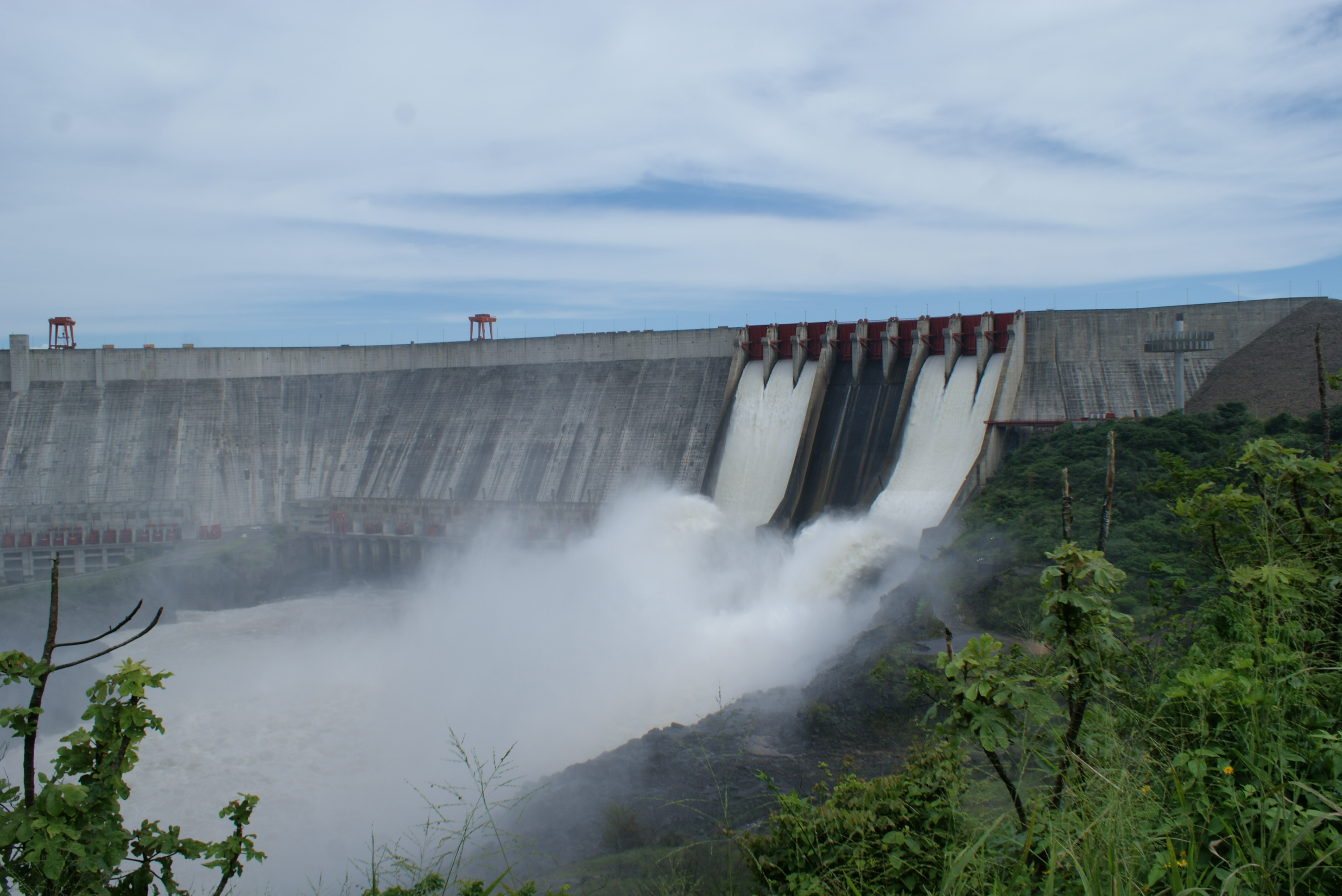 Represa del Guri en Puerto Ordaz